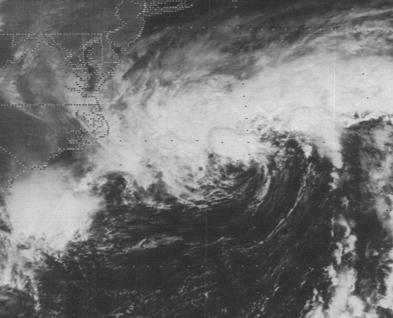 Satellite image of Tropical Storm Dean in 1983